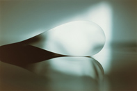 Photo taken in 2006